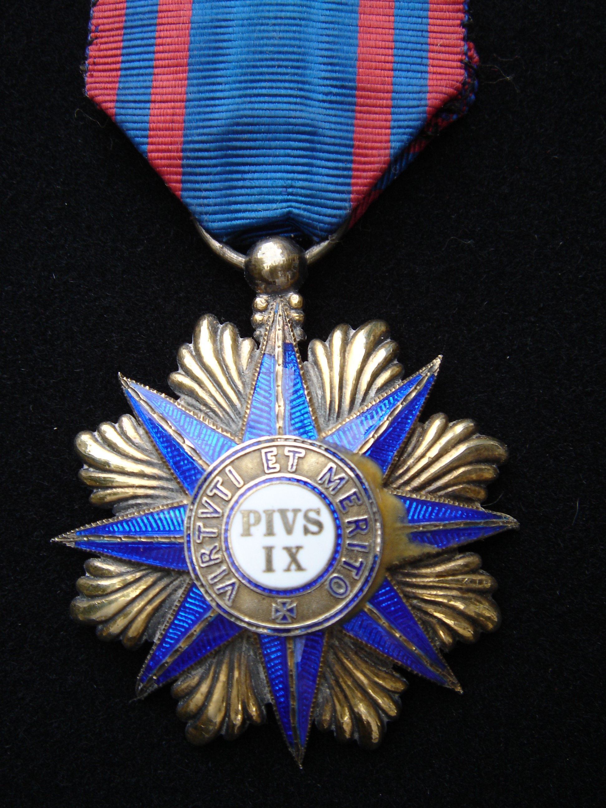 Order of Pius IX - Grade of Knight